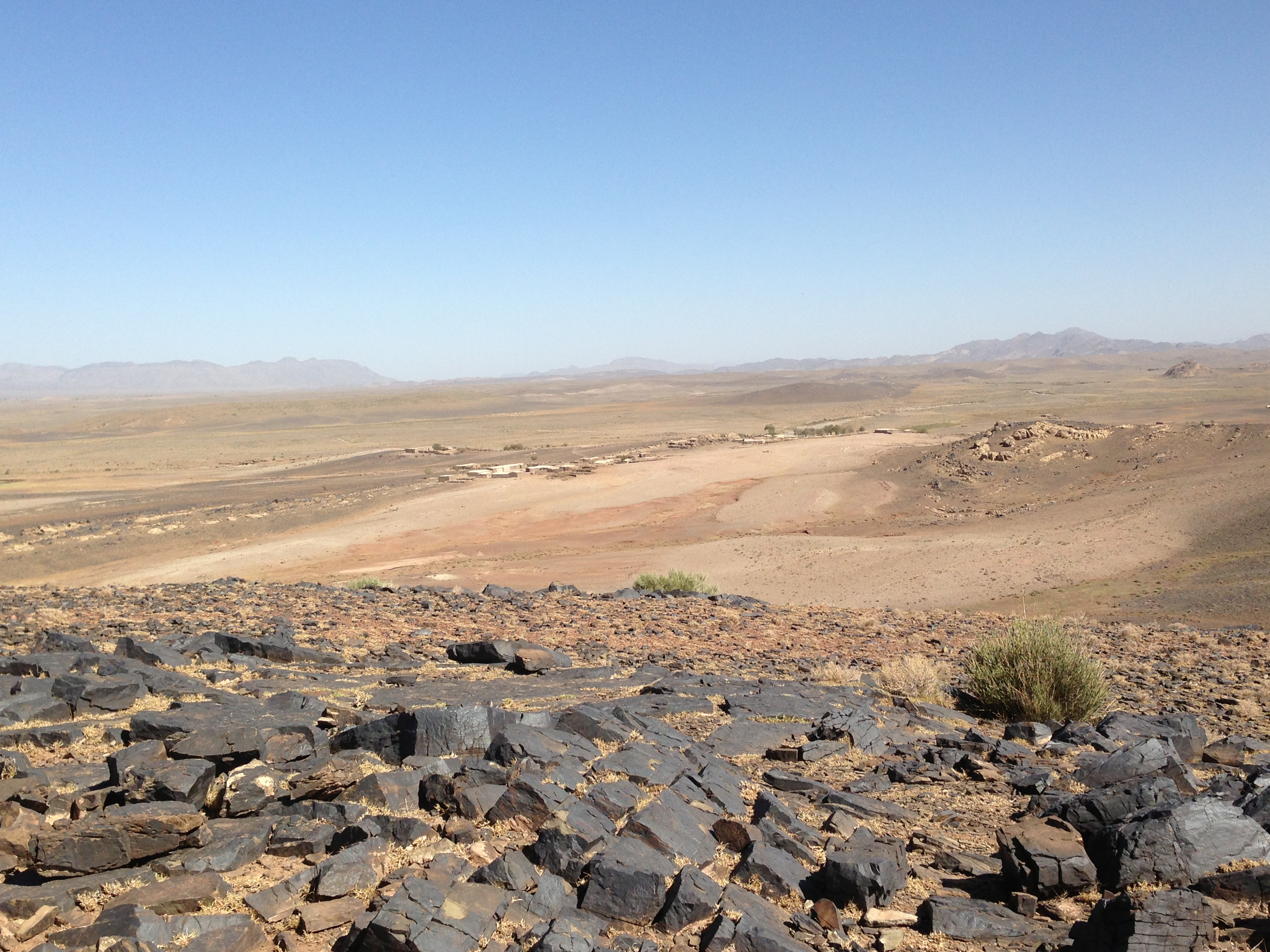 The barren and rocky topography of Balochistan.